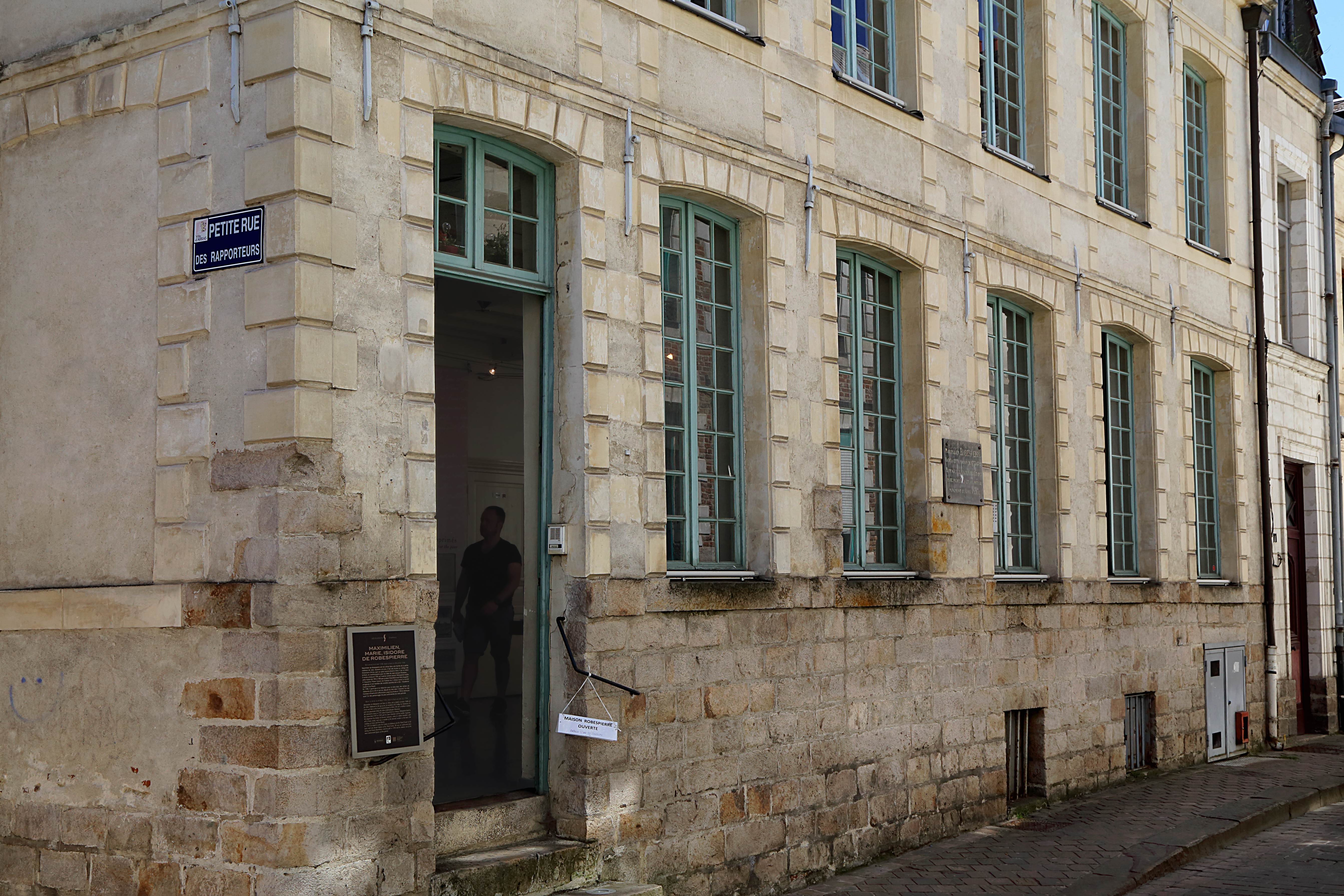 House of Maximilien de Robespierre (museum at the time of the photo) in Arras, France.